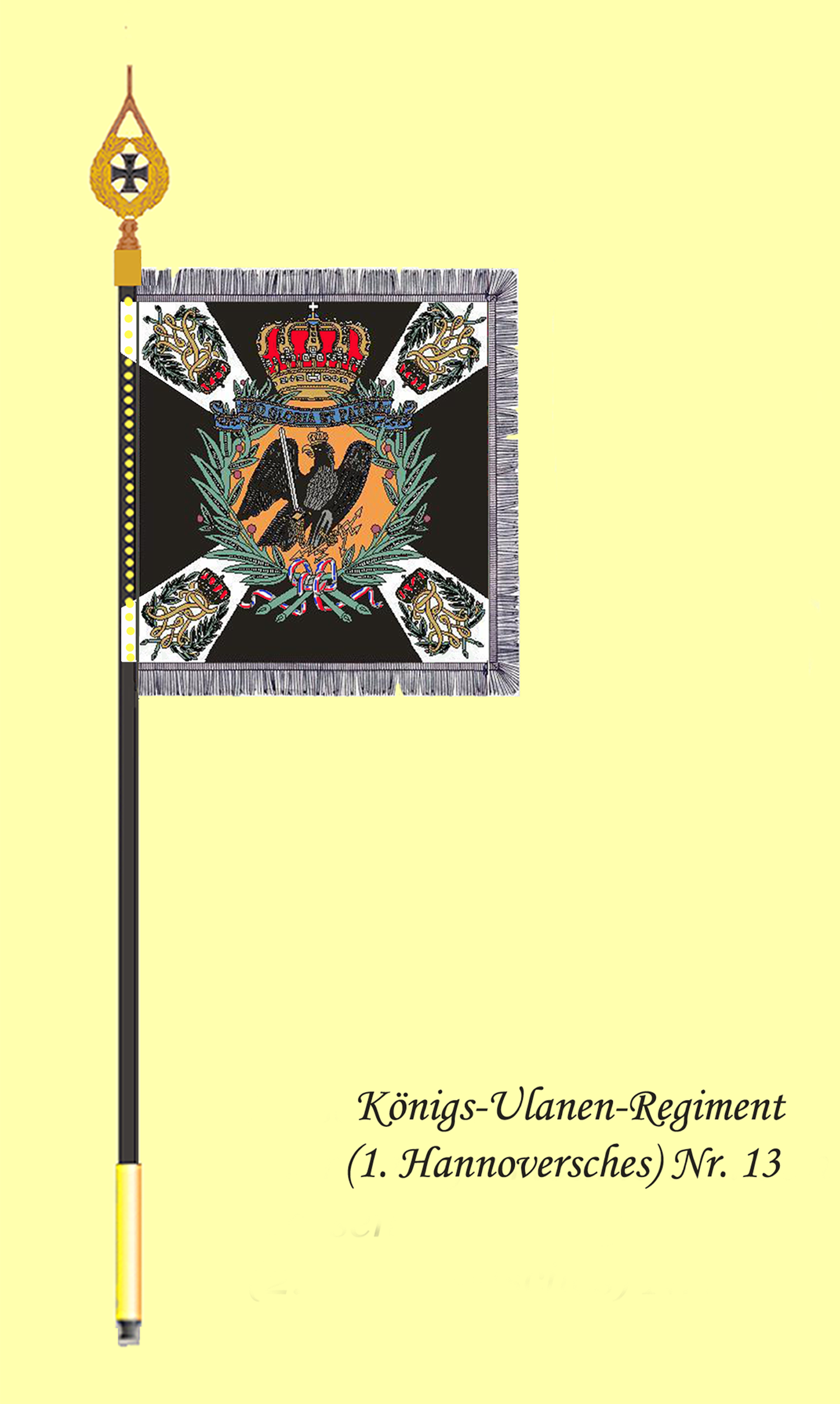 Colors of the royal prussian 13th Lancers Regiment